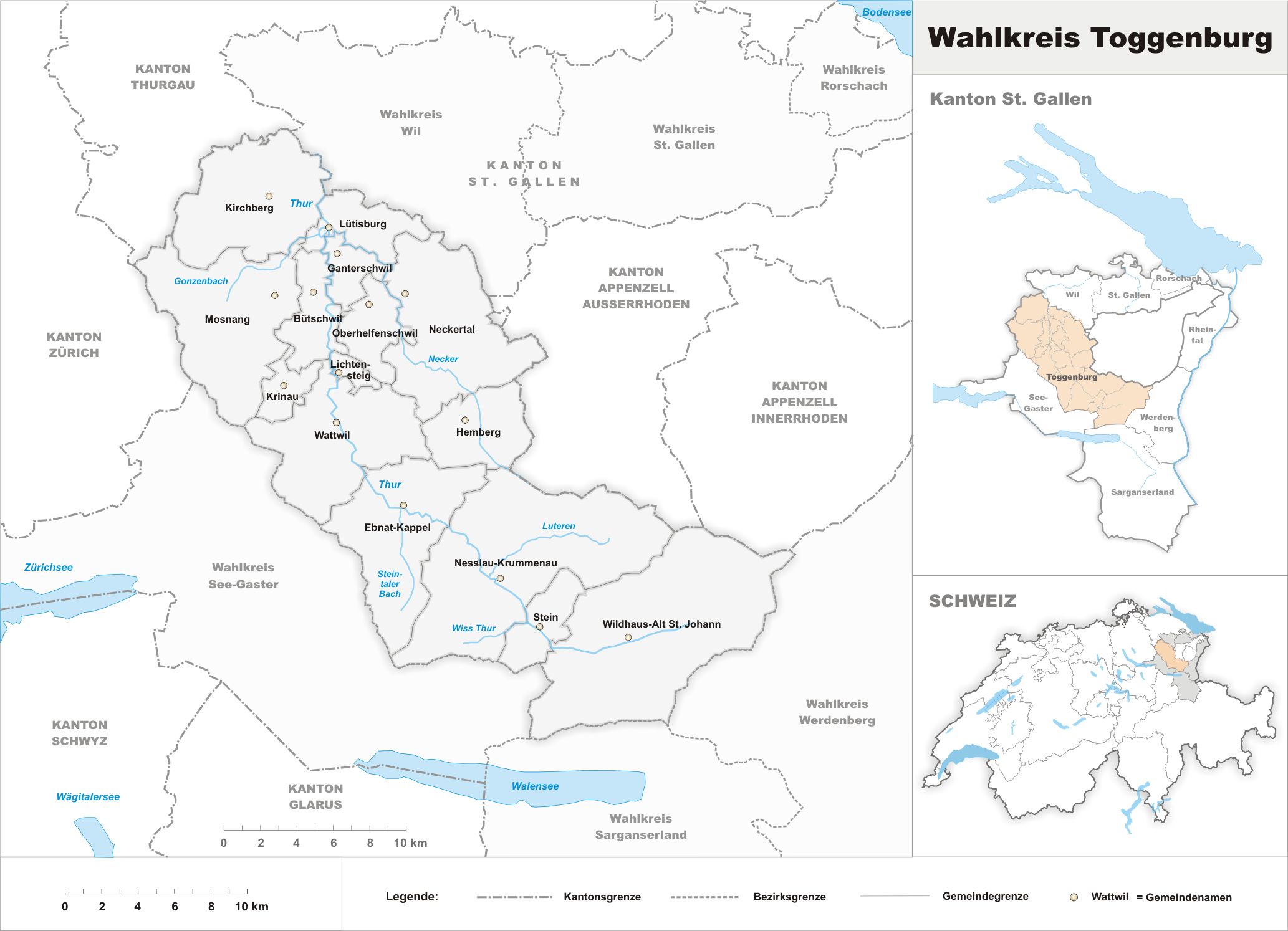 Municipalities in the district of Toggenburg